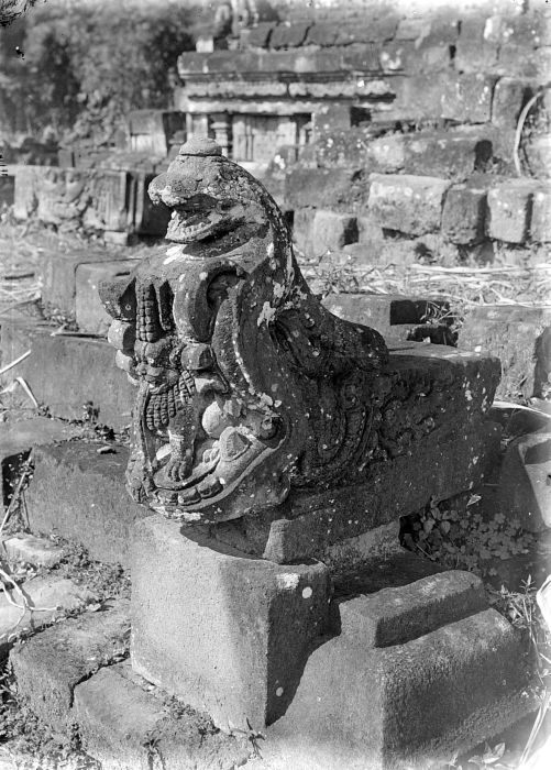 Sculpture at the Candi Bubrah